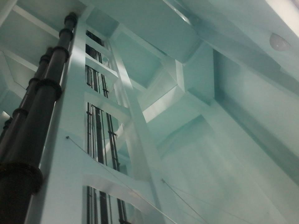 Ascensor de la Torre Tanque